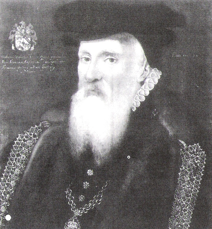 Sir Gilbert Dethick, Garter King of Arms. Portrait circa 1574.